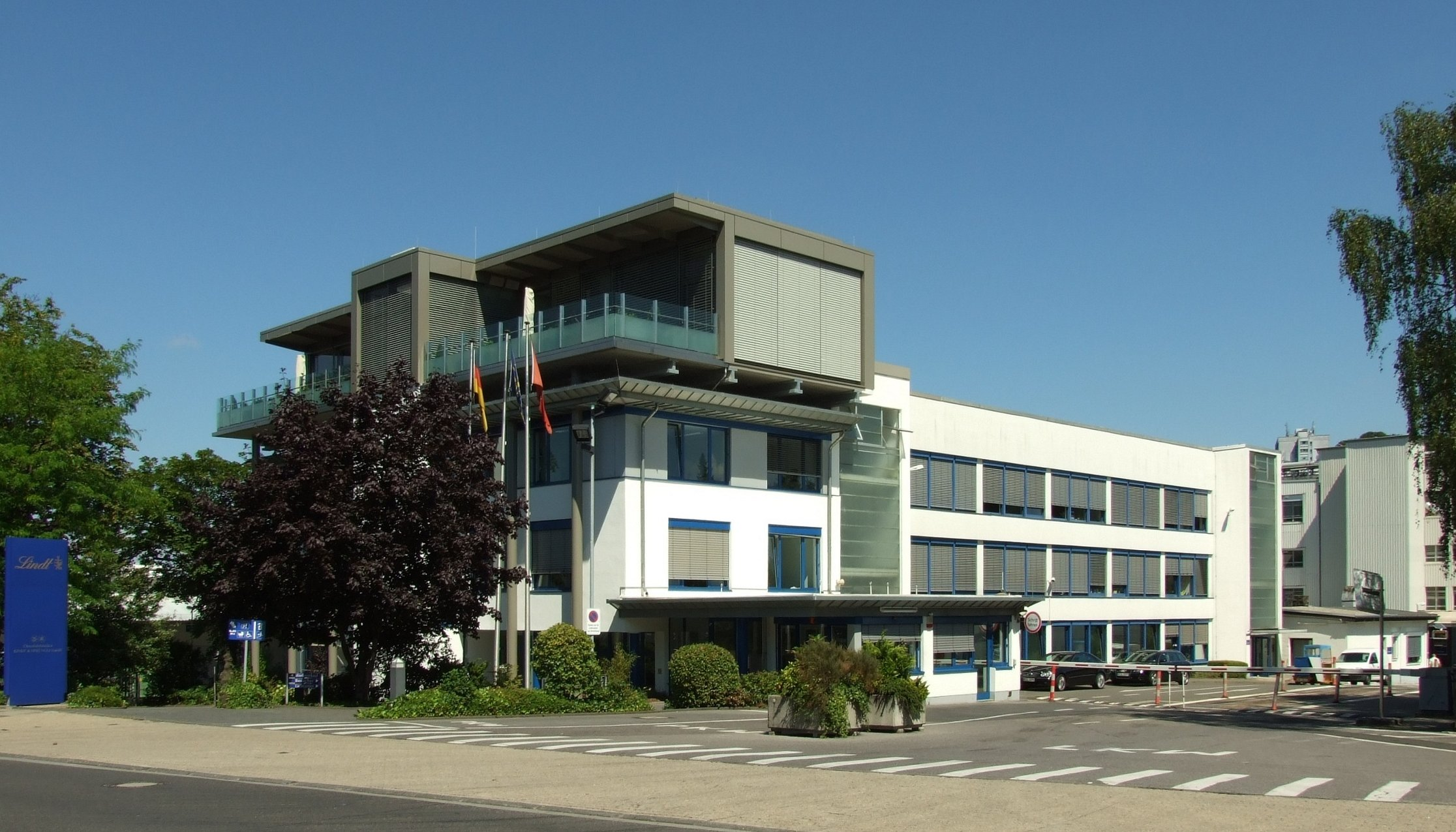 Lindt & Sprüngli factory in Aachen, Germany